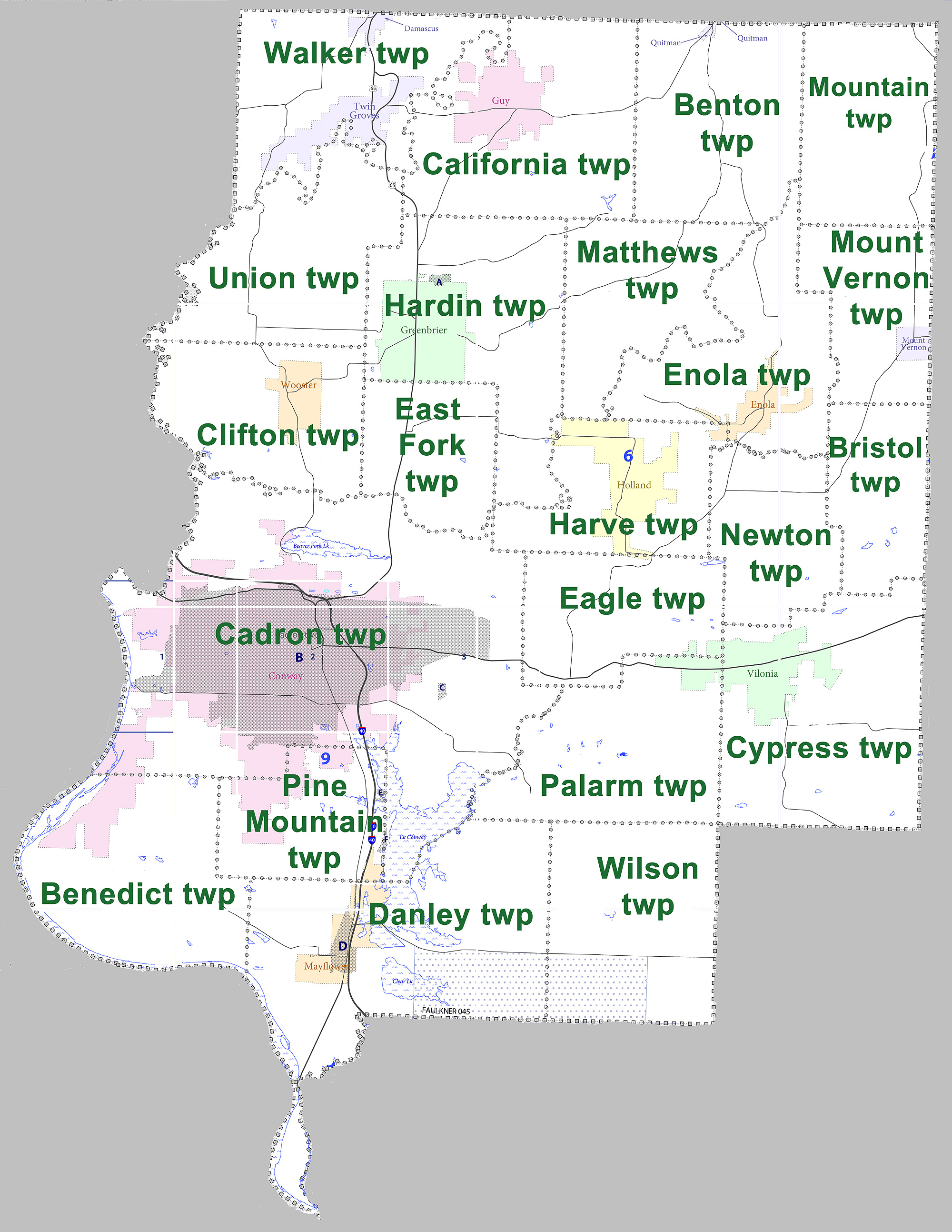 Large map showing townships in Faulkner County, Arkansas. Modified from US census map (for 2010 census) for Faulkner County, Arkansas